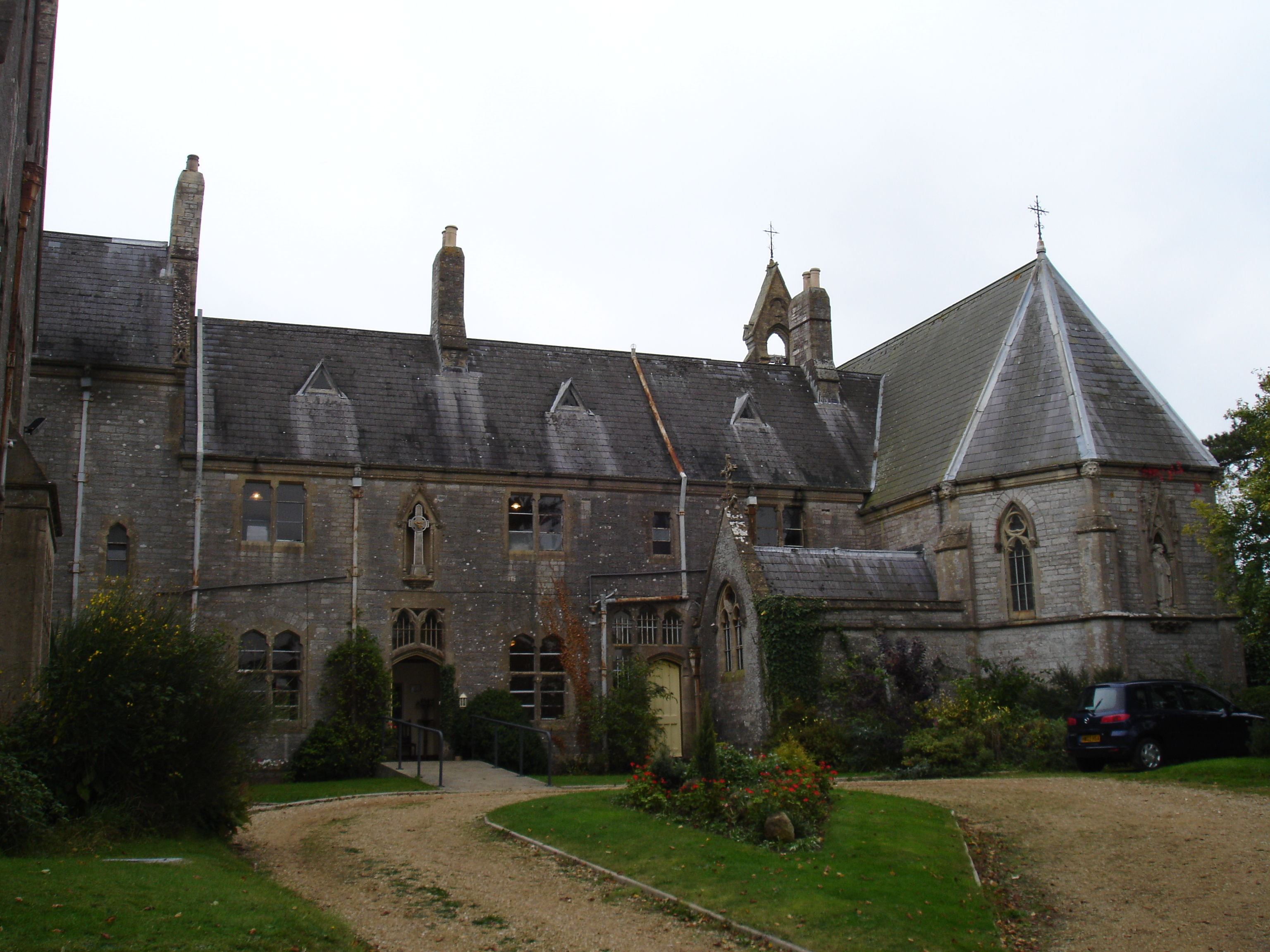 Photograph of Carisbrooke Priory, Isle of Wight